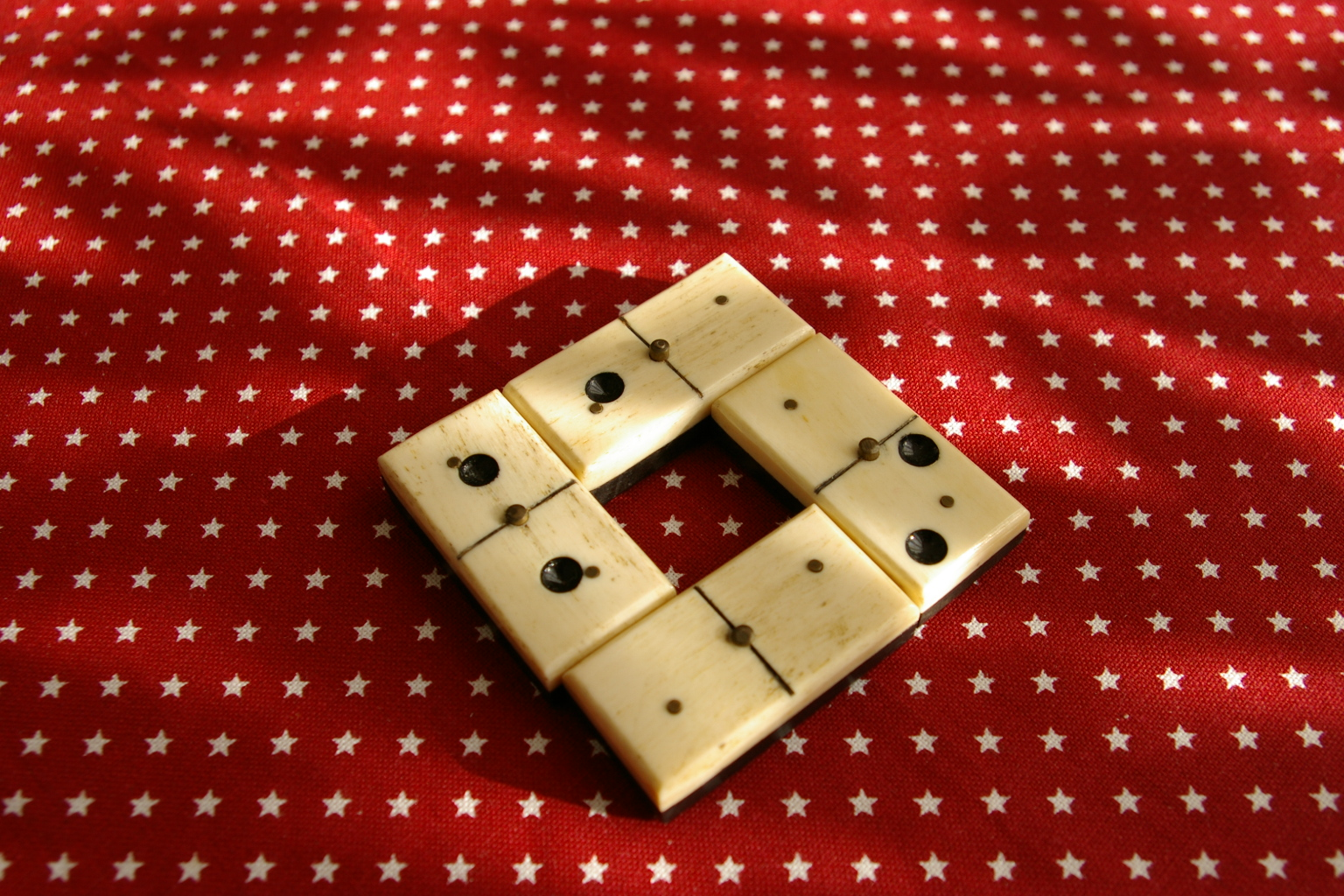 with four dominoes create a square with the same number of points